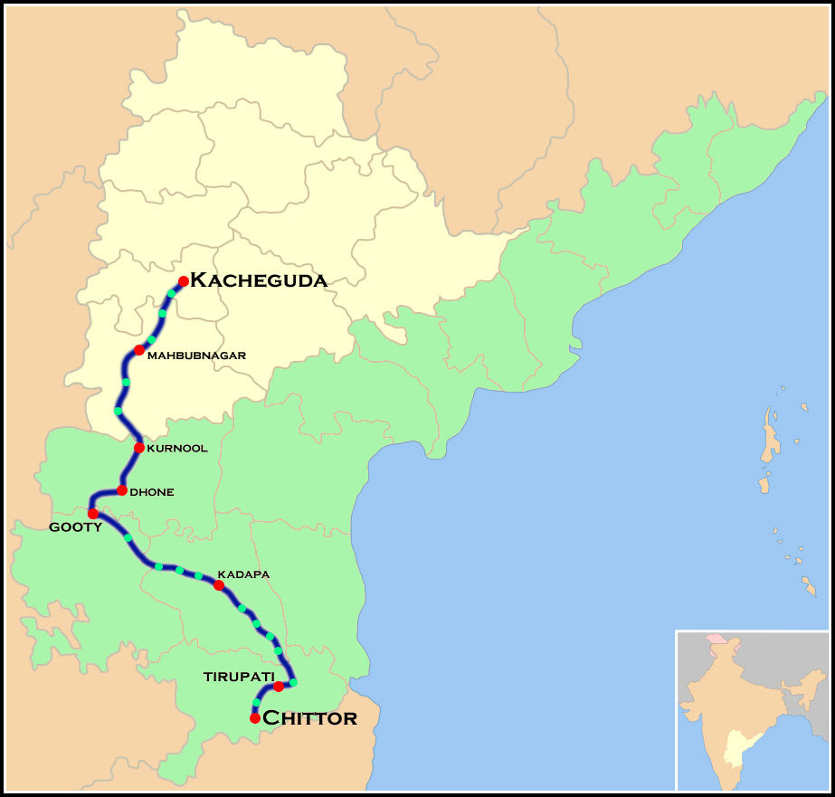 Venkatadri Express (Kacheguda - Chittor) Route map